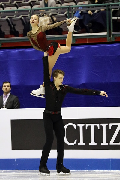 Aleksandra Boikova and Dmitrii Kozlovskii at the Junior Worlds in 2017